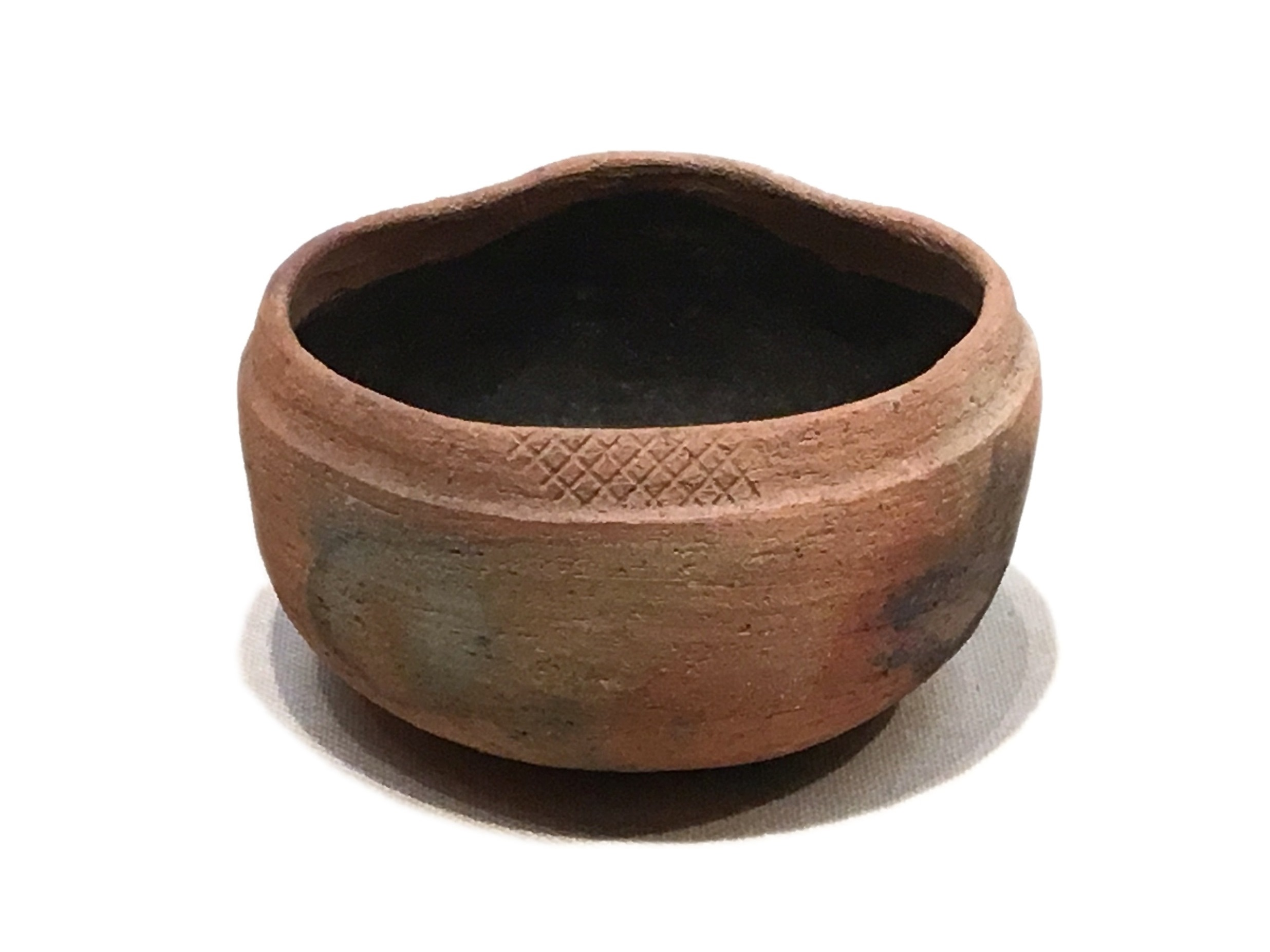 Waste-water receptacle, Nanban type. Toyosuke IV, Toyoraku ware, Nagoya Edo period, 19th century Aichi Prefectural Ceramic Museum